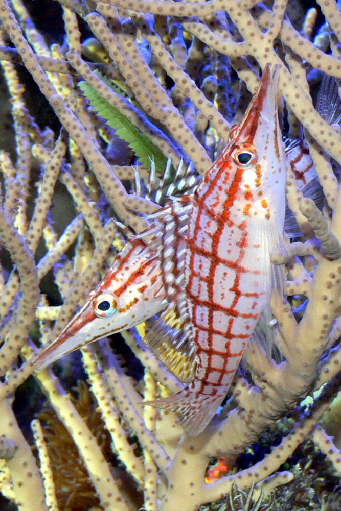 Longnose Hawkfish (Oxycirrhites typus)